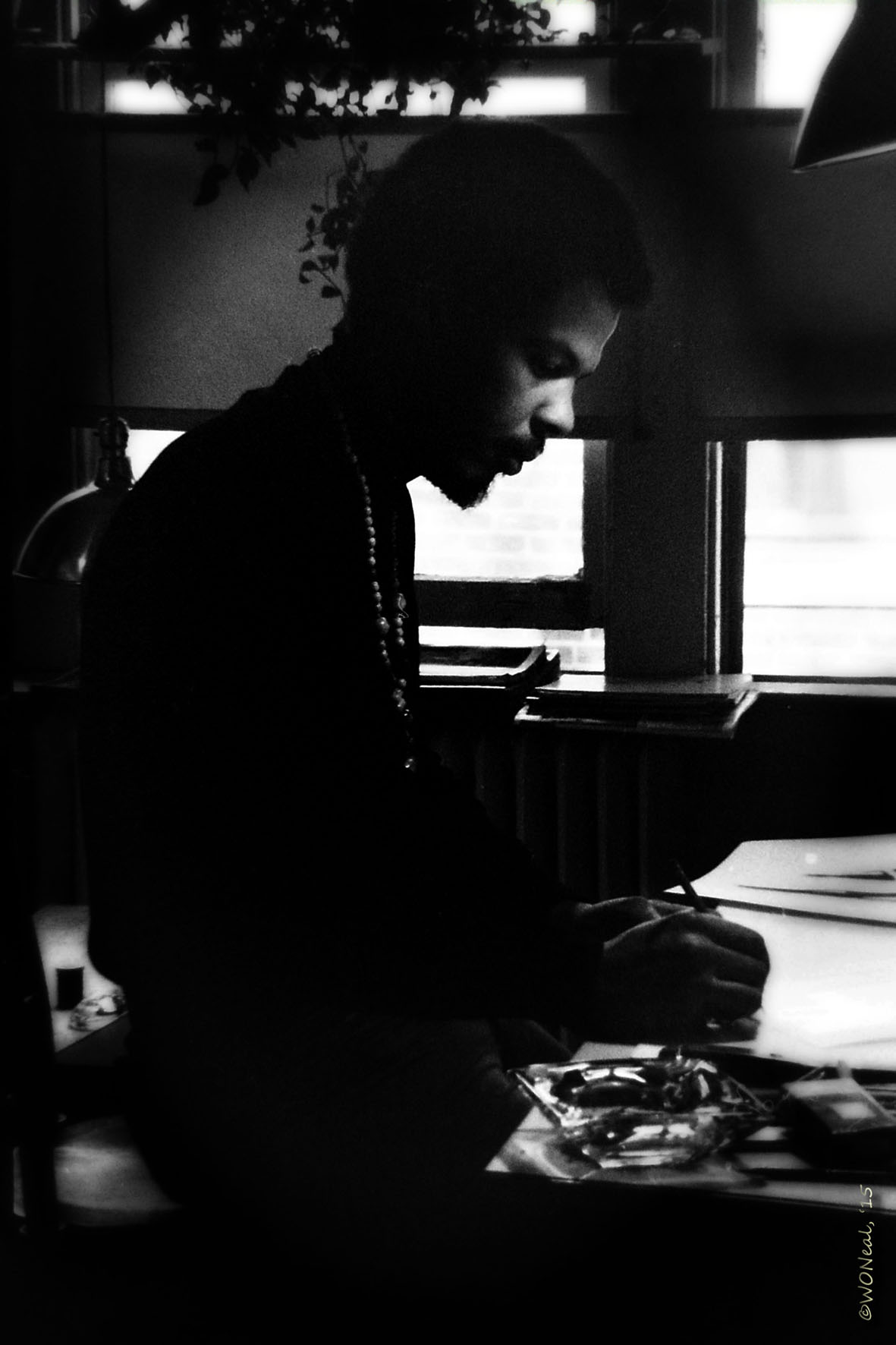 A photo of artist, Houston E. Conwill. Taken in Wash., DC, in 1974.